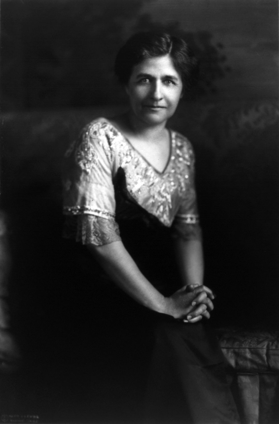 Mariette Rheiner Garner, three-quarter length portrait, seated